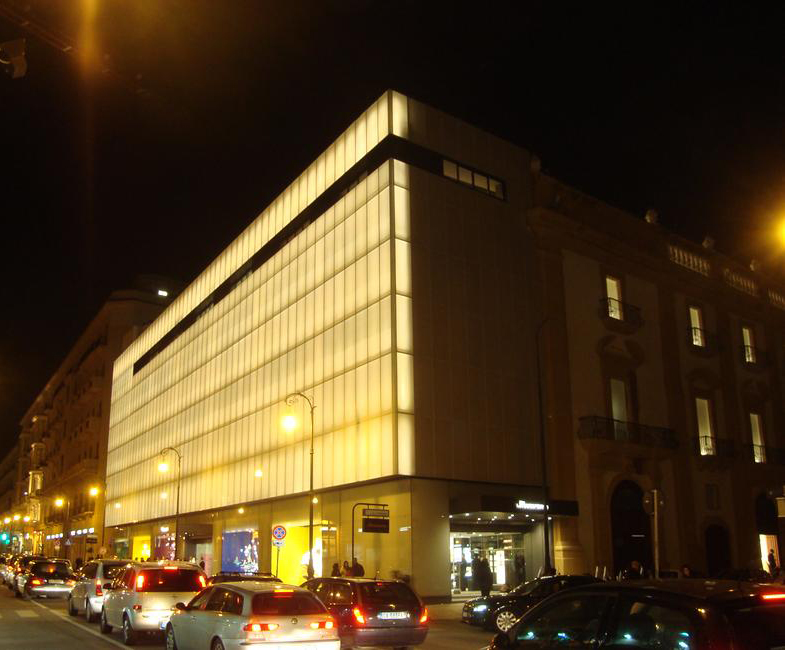 Rinascente Palermo